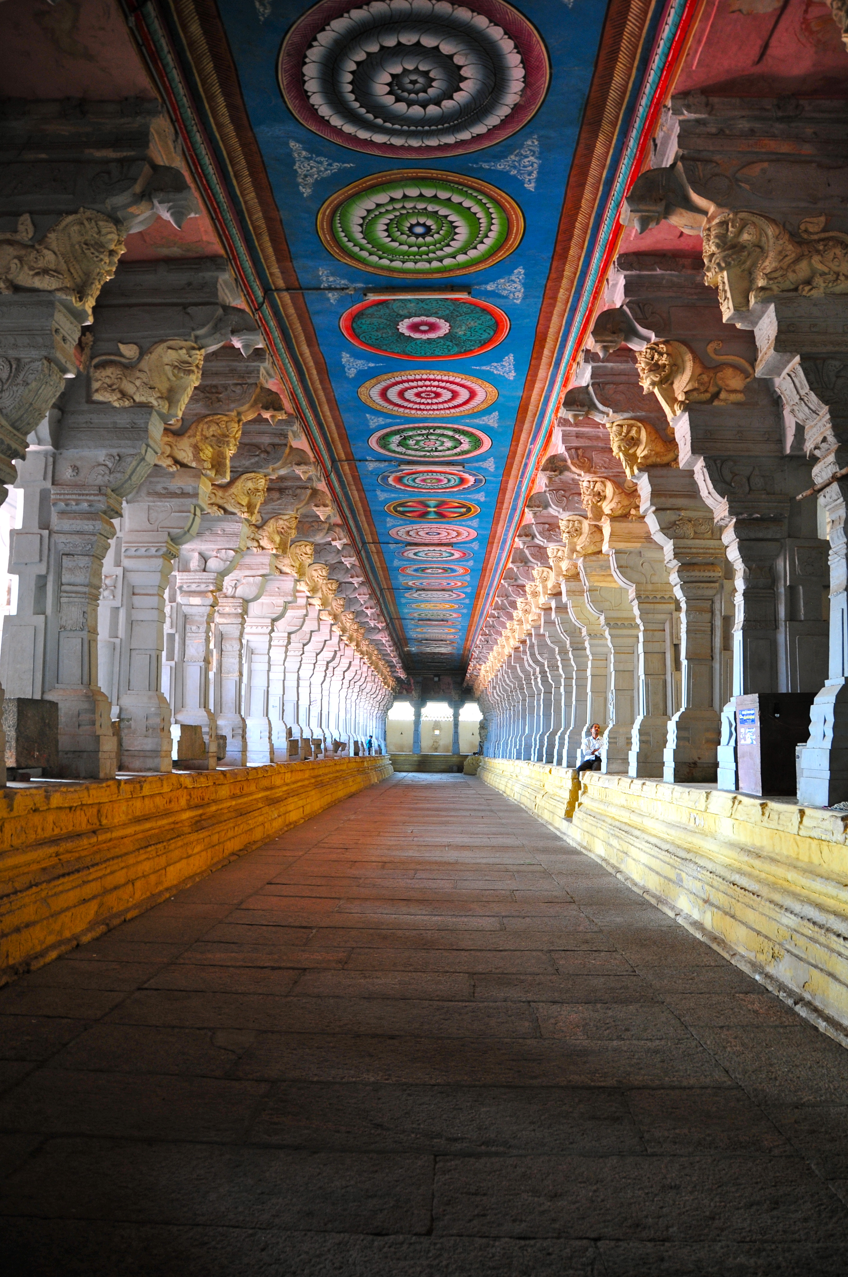 The Corridor of 1000 pillars insider Rameswaram Temple, Tamlinadu, India.